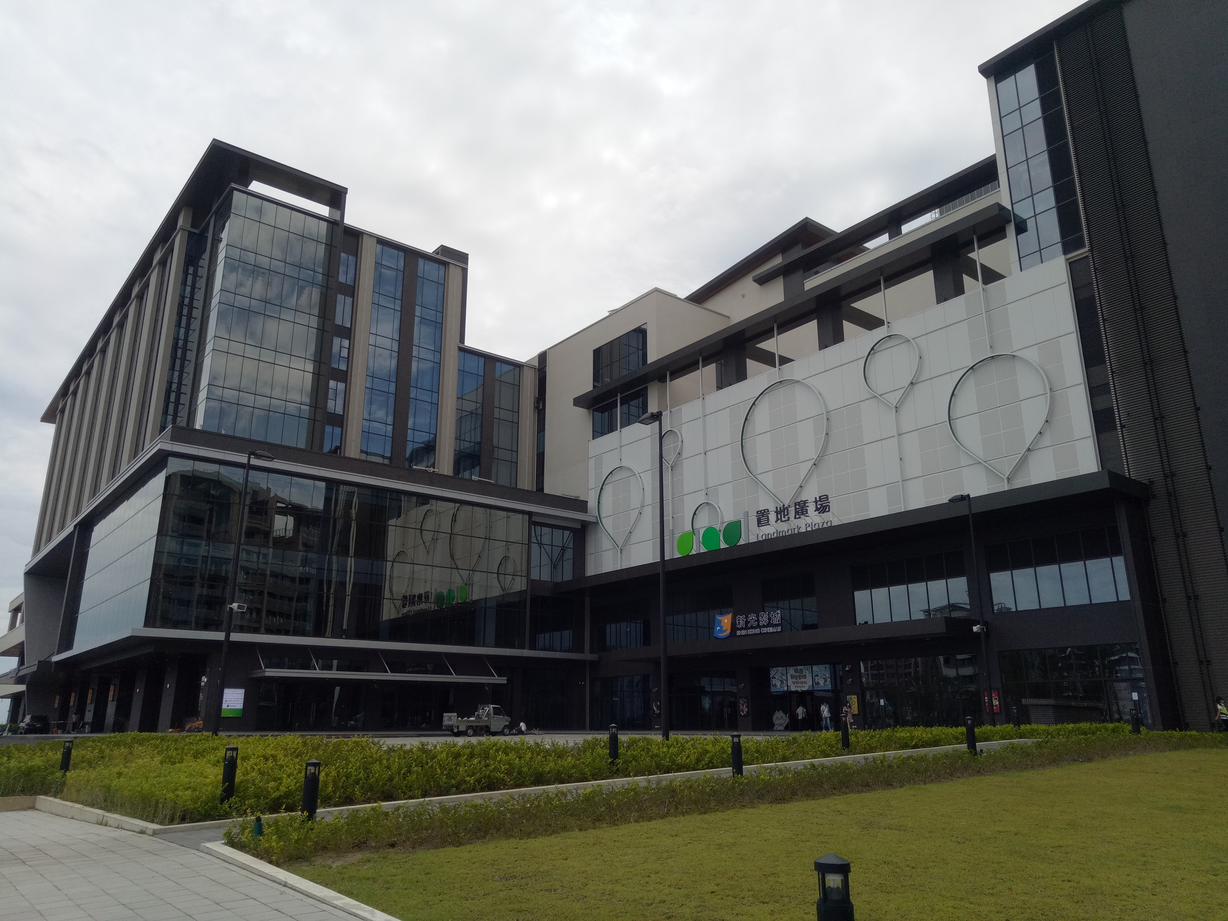 Landmark Plaza, Taoyuan City